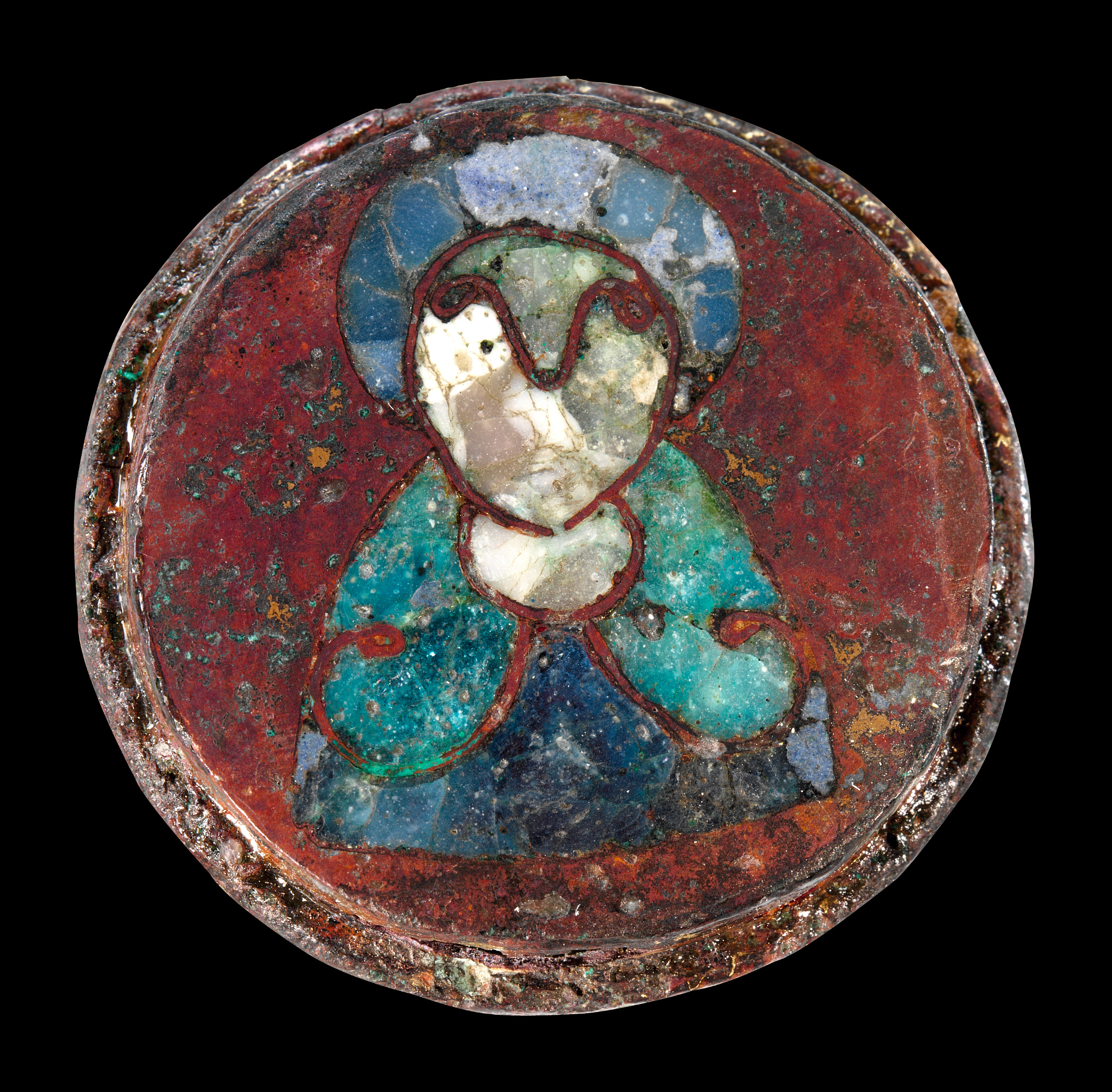 Maschen disc brooch depicting probably an unidentified saint found in a woman's grave.